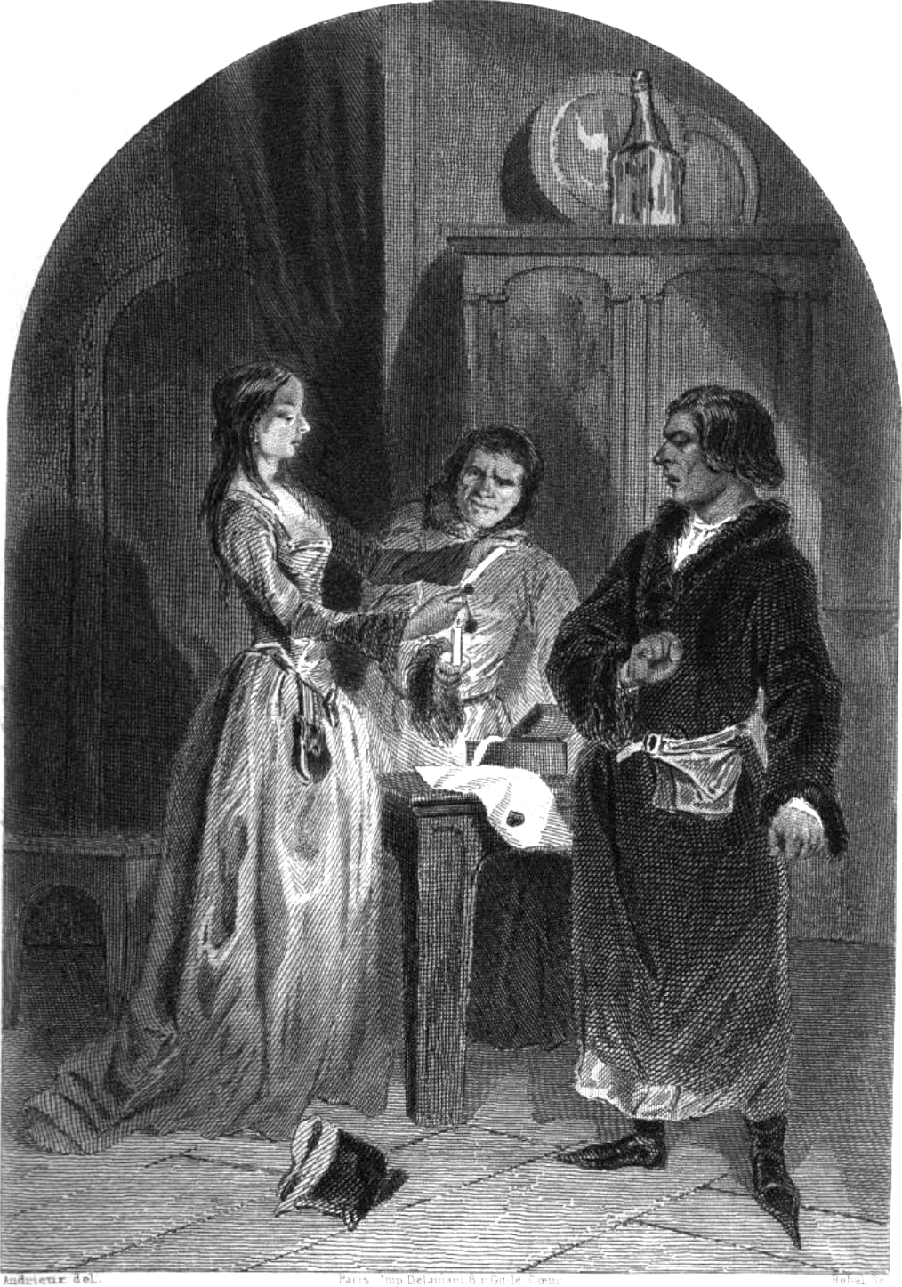 Jeanne de Divion (c. 1293 - 1331), French adventurer.